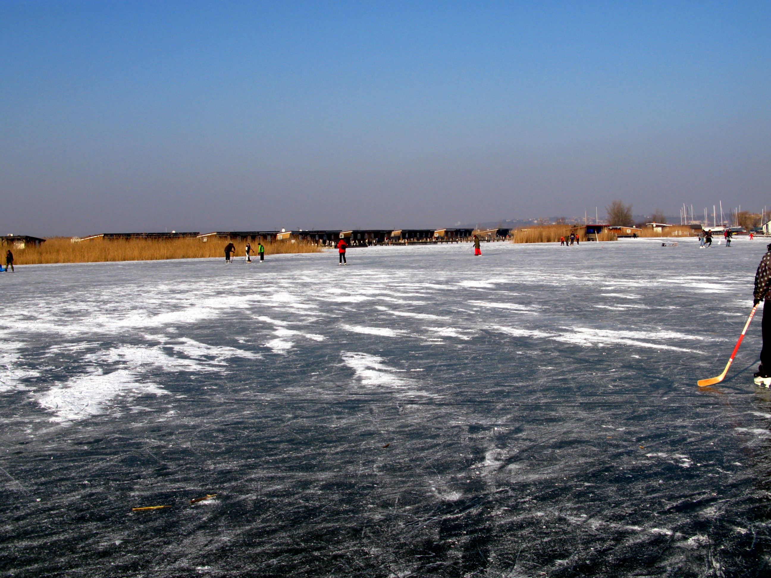 Ice skating on Lake Neusiedl / Burgenland / Austria / EU. On the right side a ice hockey racket. Further search items: ice-skater, frozen, winter, reed.